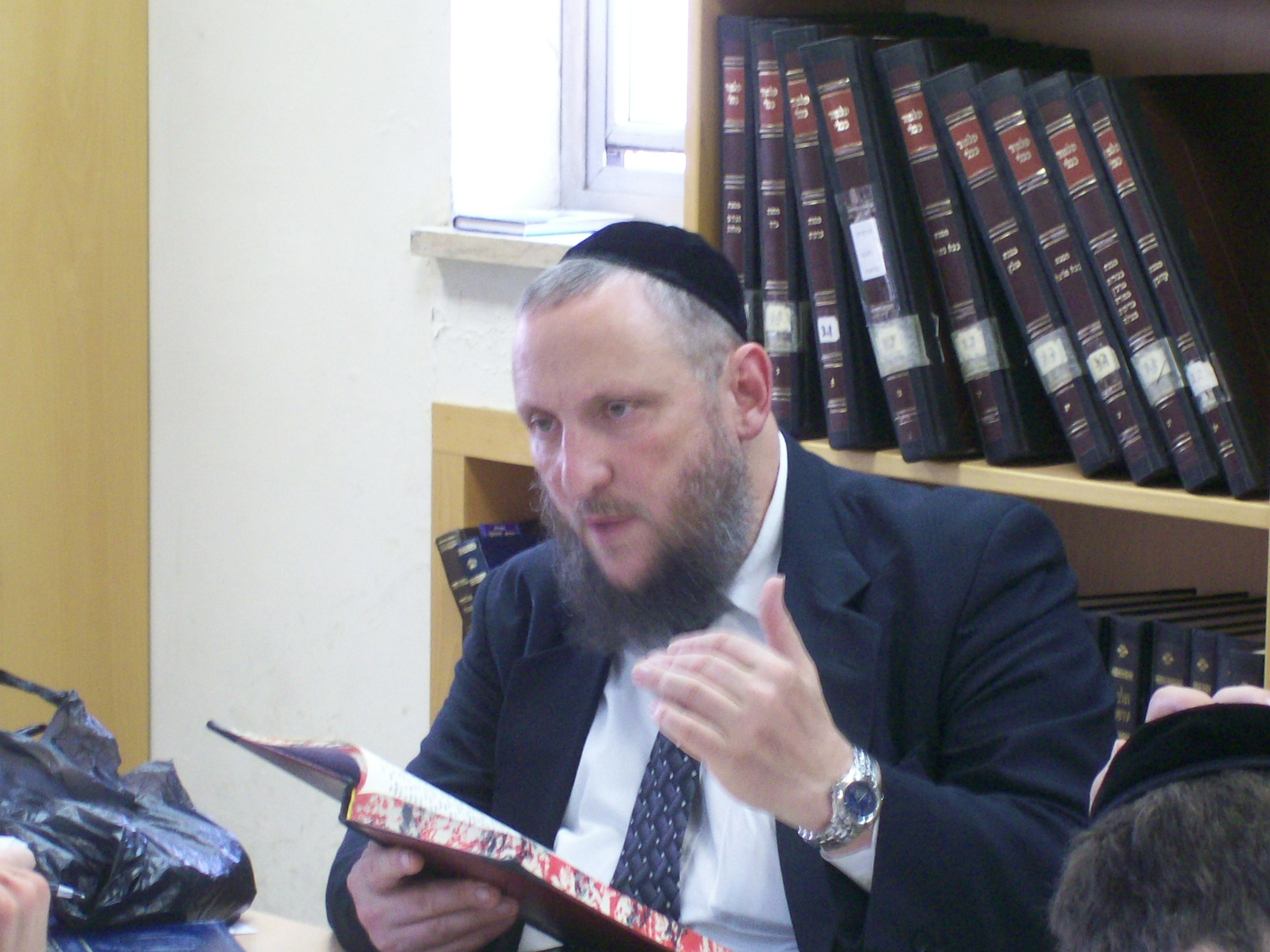 I took this picture